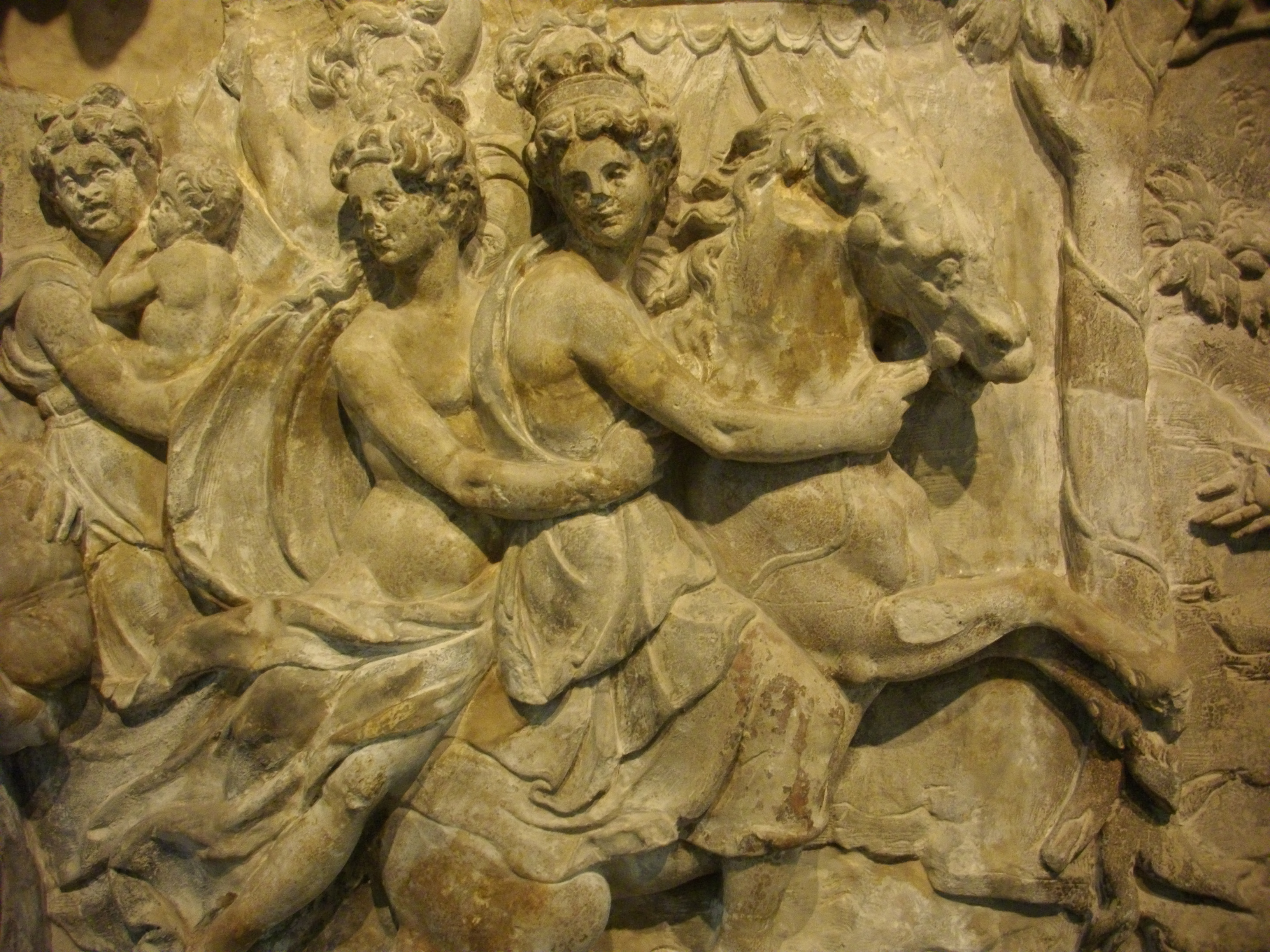 Archaeology and history musueum of Orléans (Loiret, France) : chimney mantle (Bottles street, Orléans) Cloelia's ride, 16th century - detail of Cloelia